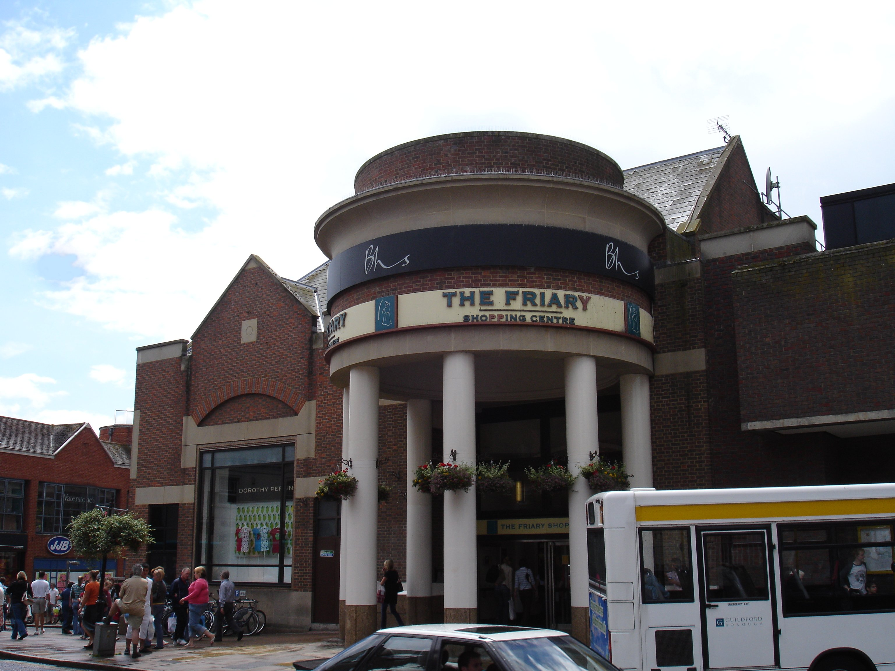 Photograph of The Friary Shopping Centre, Guildford, Surrey, England, location of former Dominican Friary.